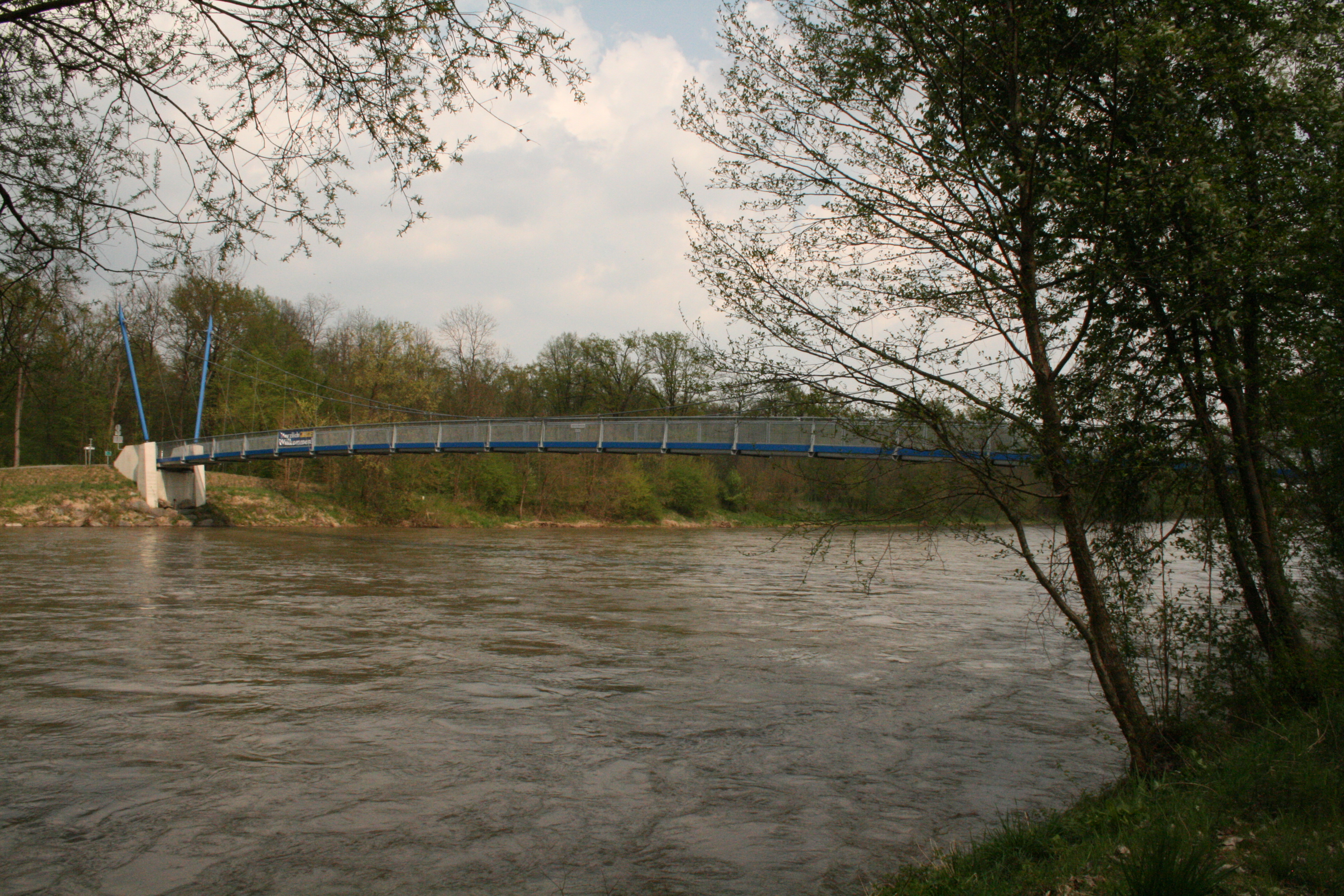 Bridge over the river Mur between Halbenrain, Styria, Austria and Gornja Radgona, Slovenia (Europe)